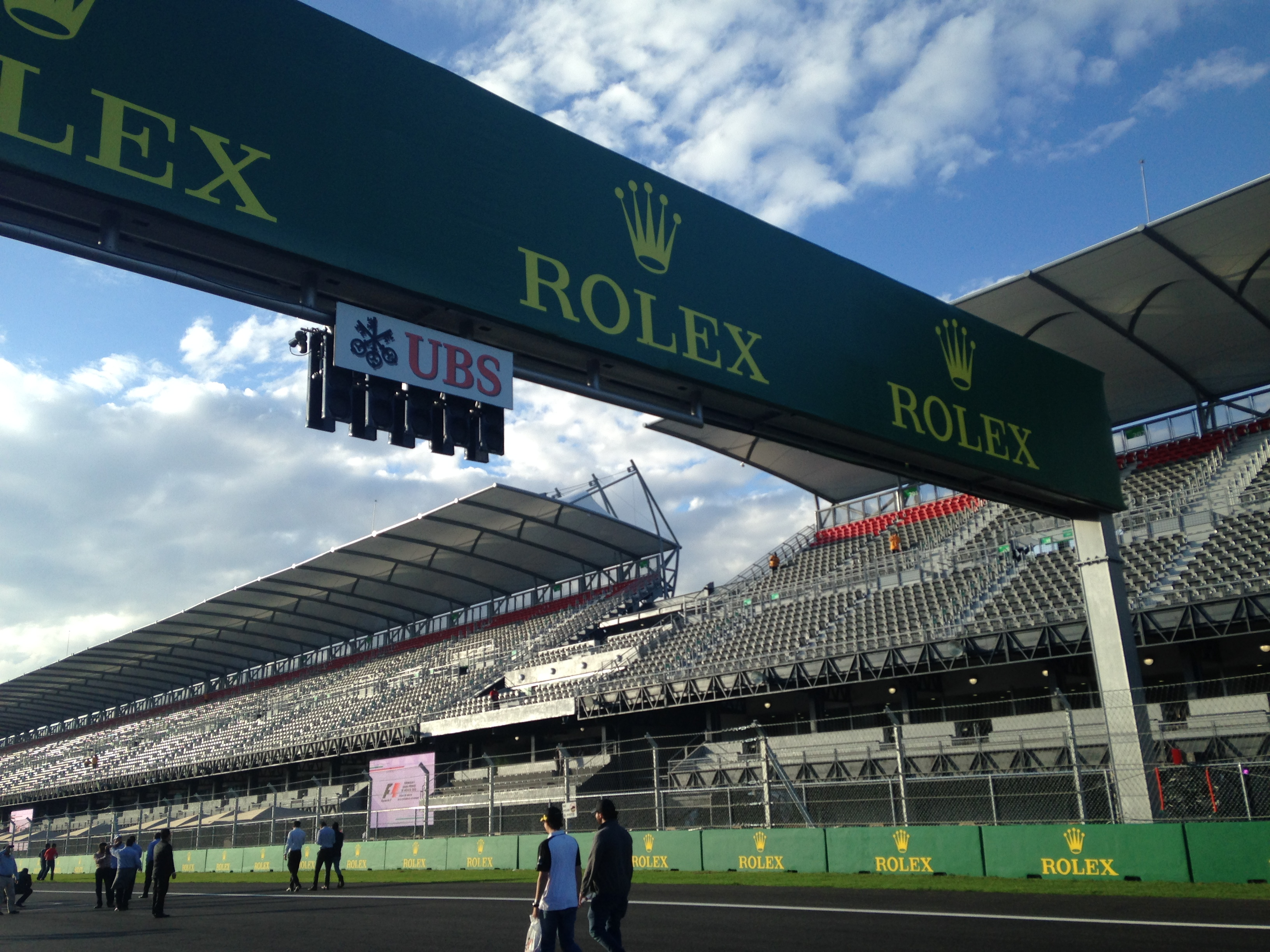 PitWalk Mexican Grand Prix 2015, Autódromo Hermanos Rodríguez. Mexico City, Mexico.